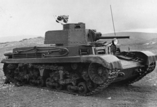 Czechoslovakian tank Škoda T-21 / Š-II-c captured while being tested in Hungary.